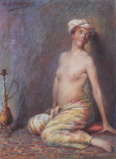 Oriental beauty